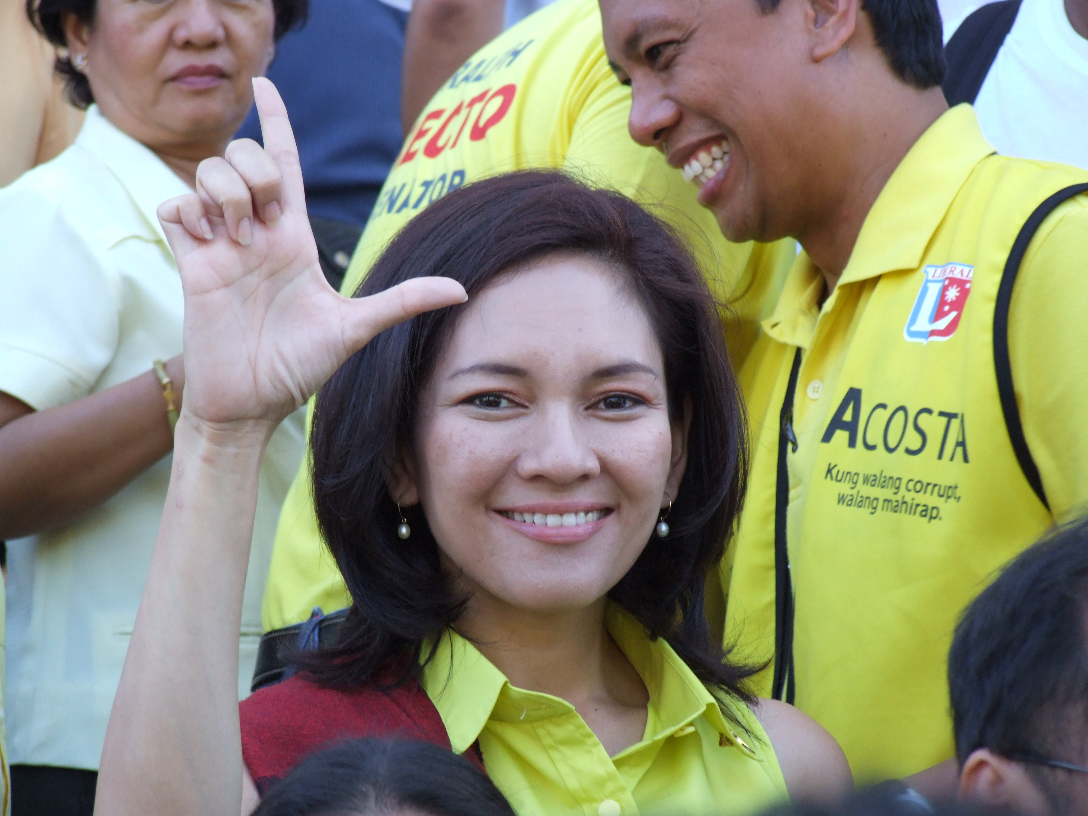 Photo of Risa Hontiveros-Baraquel during the Liberal Party campaign sortie in Antipolo City, Rizal on April 12, 2010.